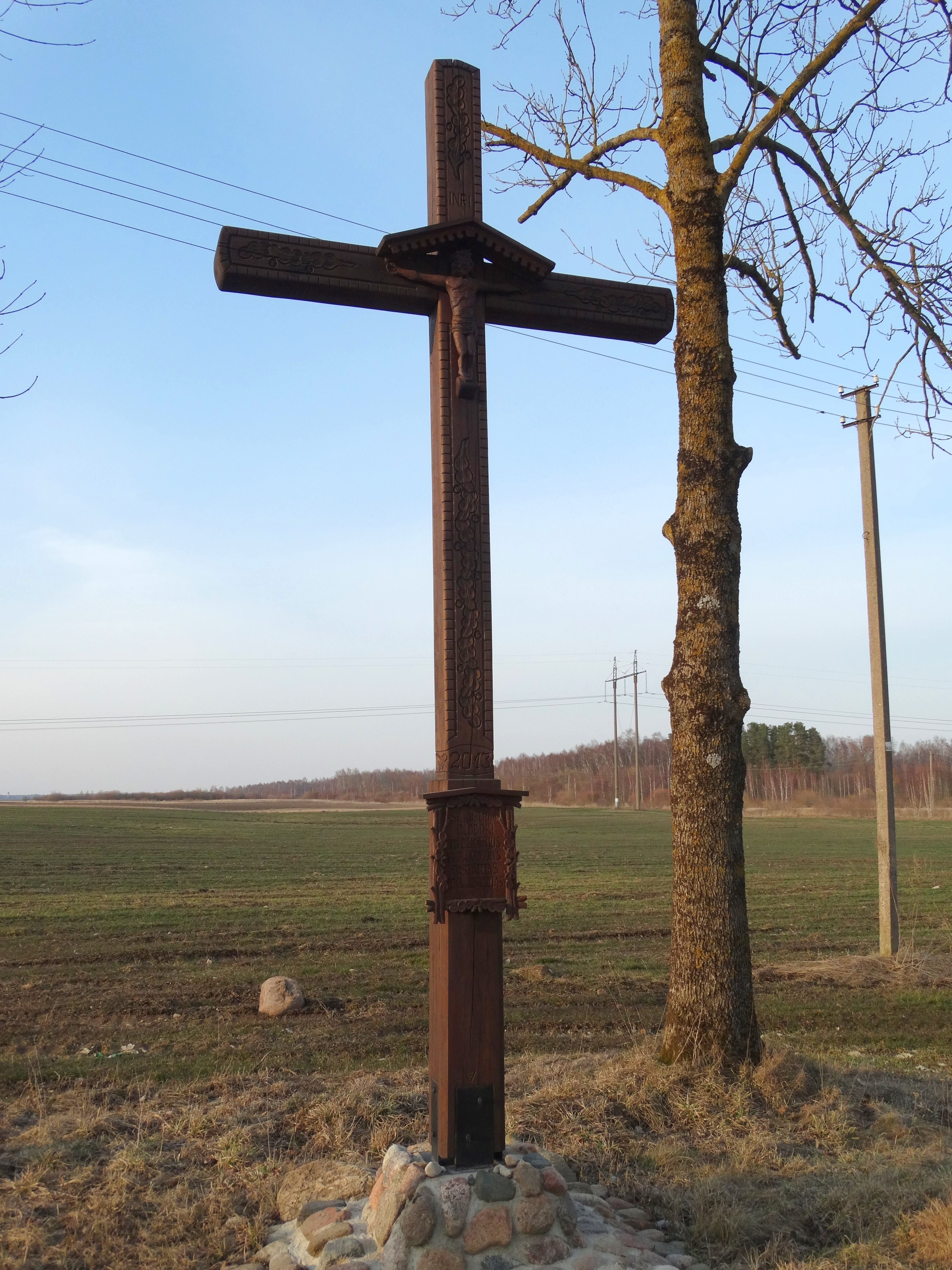 Velykiai, wayside cross, Panevėžys district, Lithuania